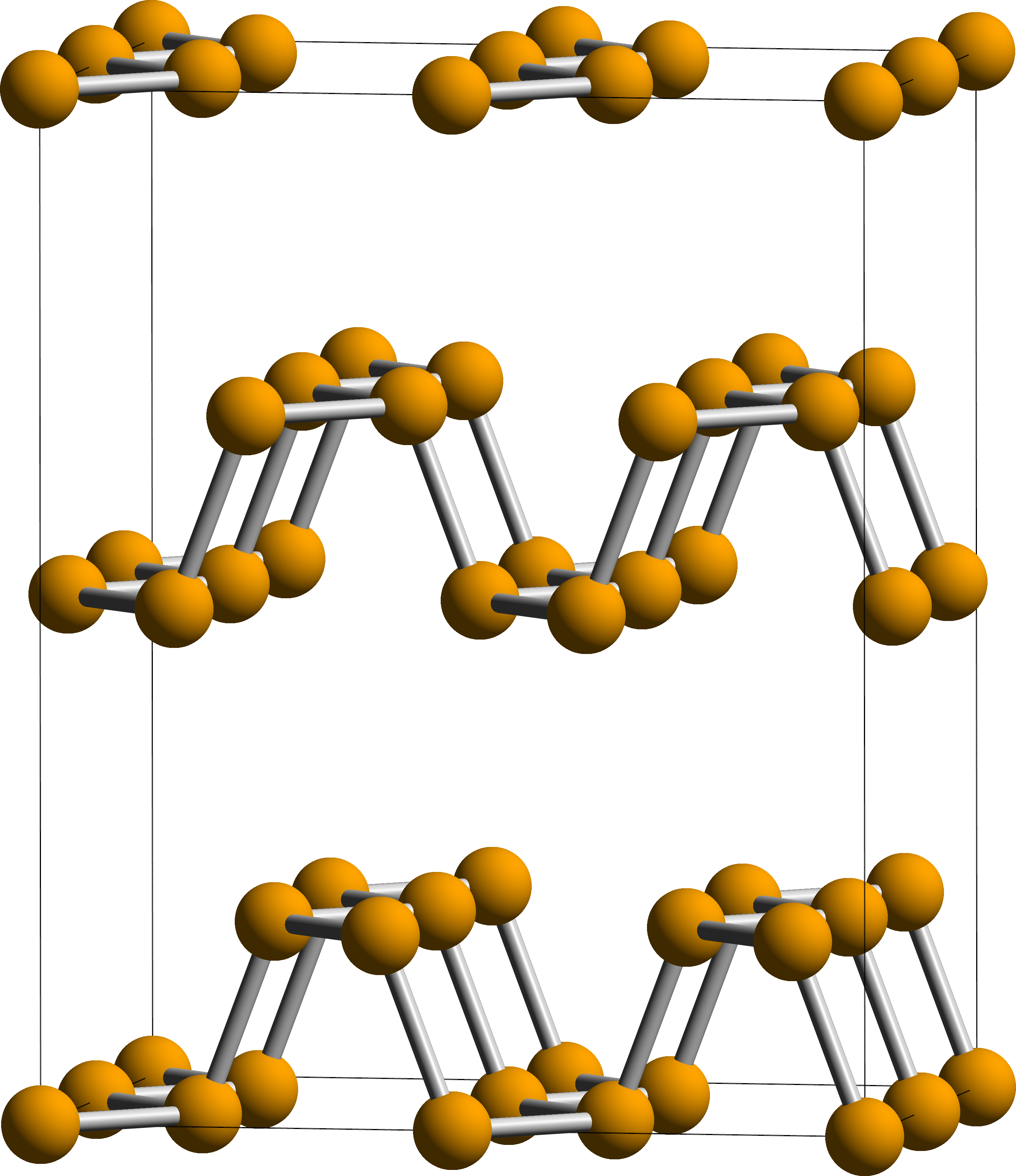 This is a unit cell of black (orthorhombic) phosphorus with spacegroup Cmca